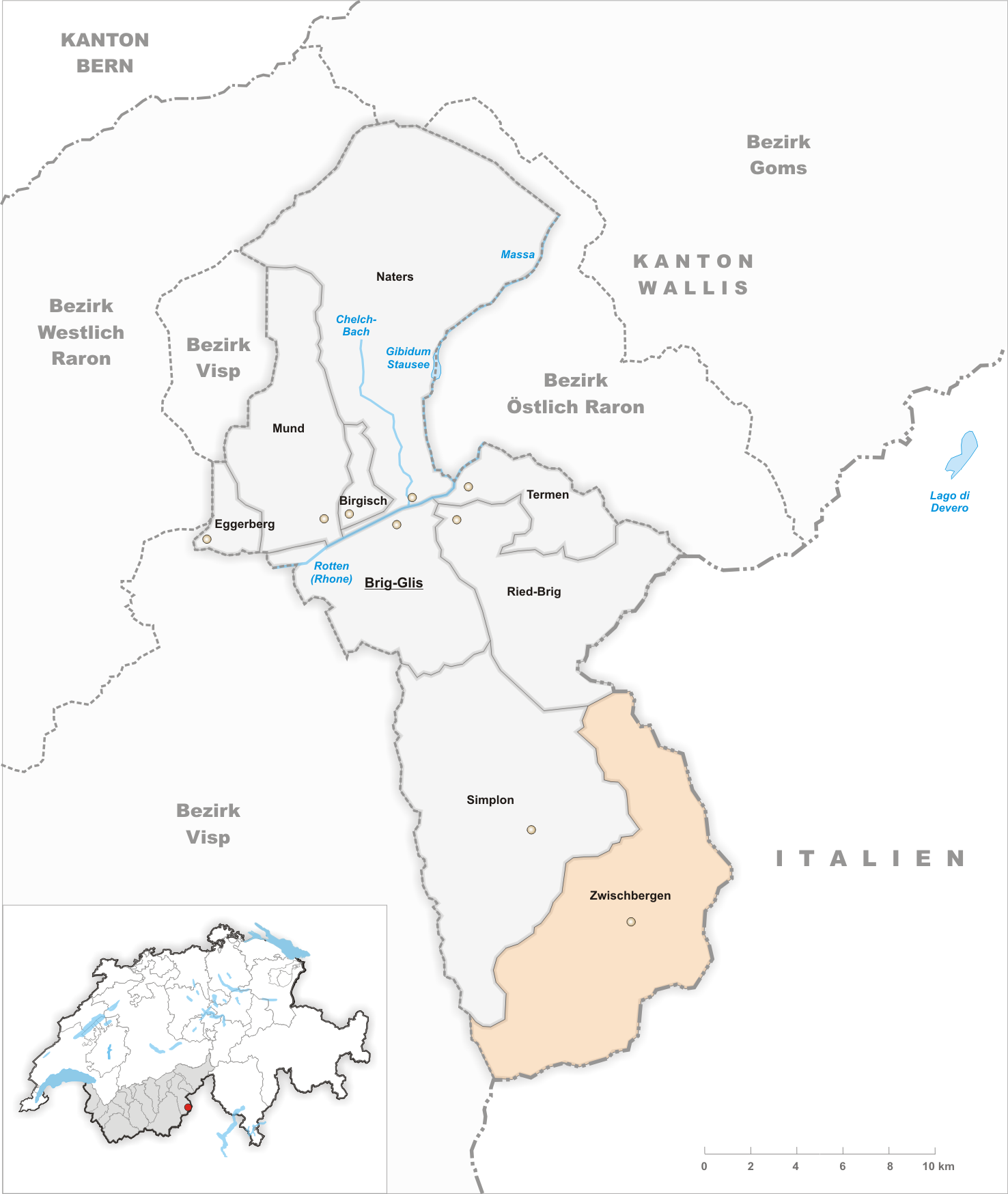 Municipality Zwischbergen